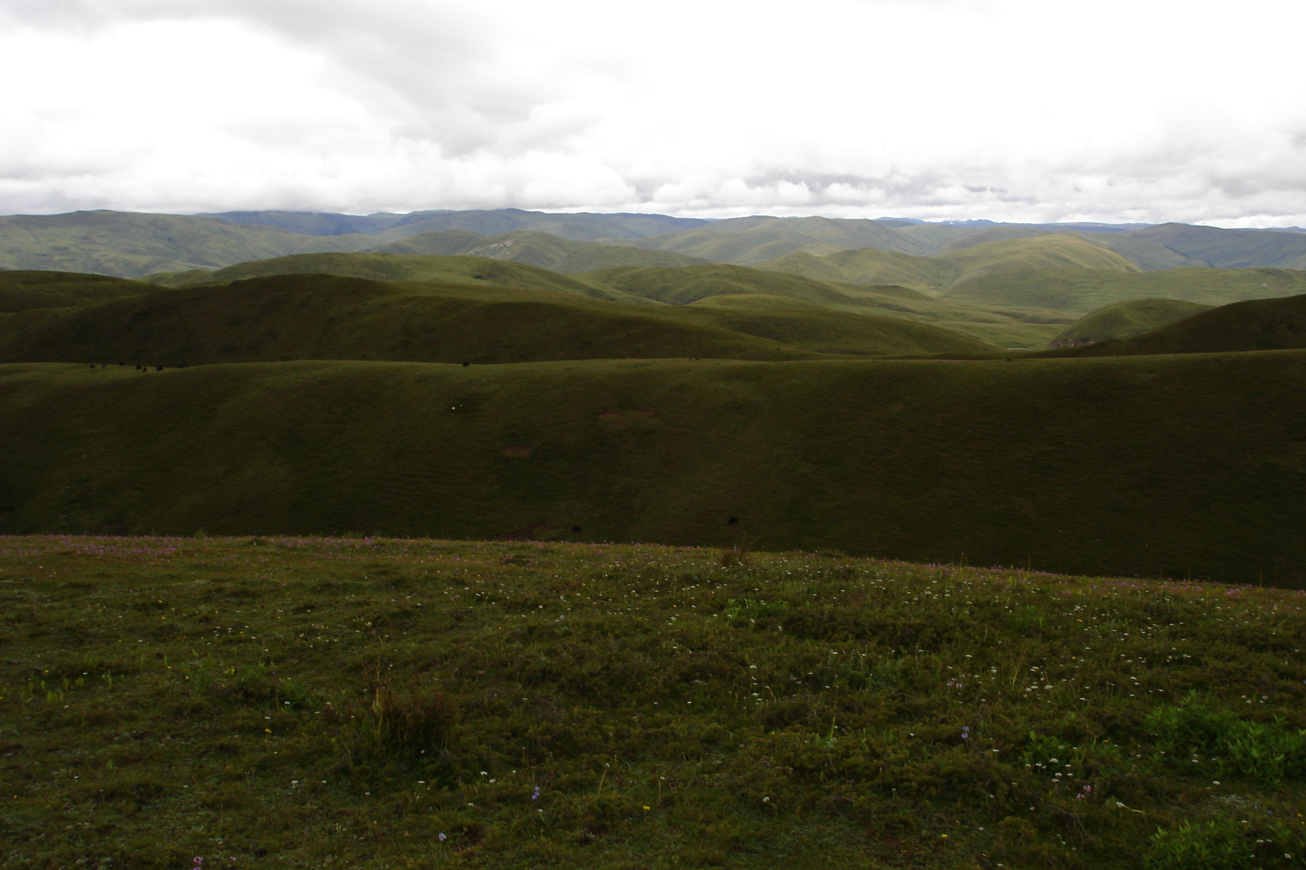 Kham landscape (Tibet, Sichuan, People's Republic of China).